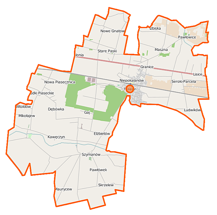 Map of Gmina Teresin, Poland This map of Teresin (gmina) was created from OpenStreetMap project data, collected by the community. This map may be incomplete, and may contain errors. Don't rely solely on it for navigation. Border coordinates52.250520.2952←↕→20.498152.1265